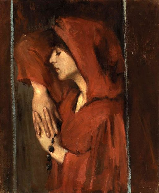 Woman with Red Hood